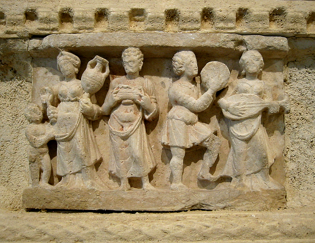 Detail of Stupa C1, Hadda. Musee Guimet. Personal photograph 2006